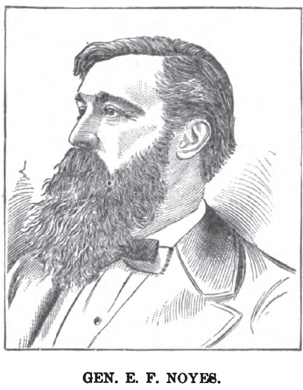 A Union officer and later Ohio Governor named Edward Follansbee Noyes drawn by Henry Howe.